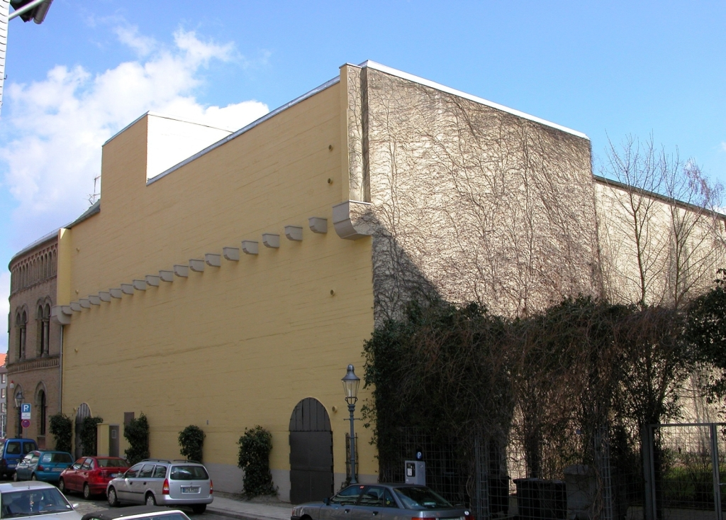 Braunschweig, Germany: Air raid shelter “Alte Knochenhauerstraße”, where Braunschweig’s Synagogue used to be.